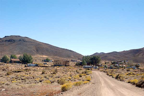 The town of Gold Hill. View to southeast.